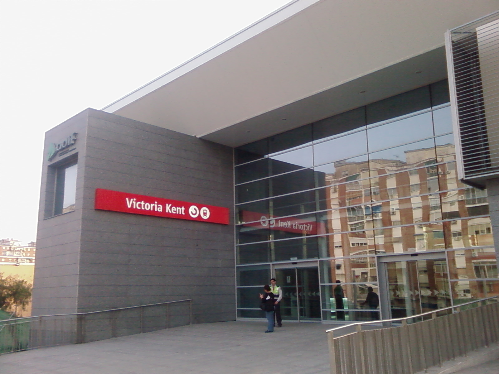 Victoria Kent train station, Málaga, Spain